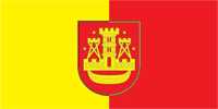 Flag of Klaipėda (Lithuania)